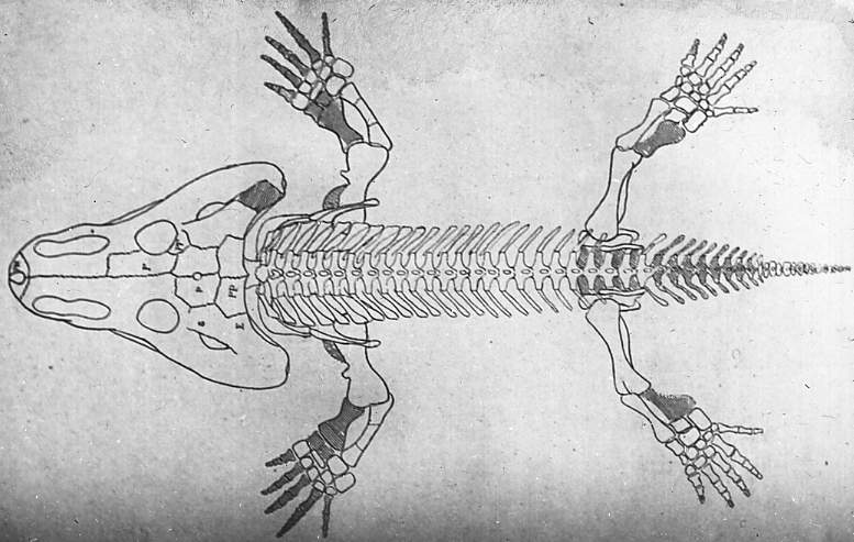 Permian Amphibian, Texas. Trematops Milleri